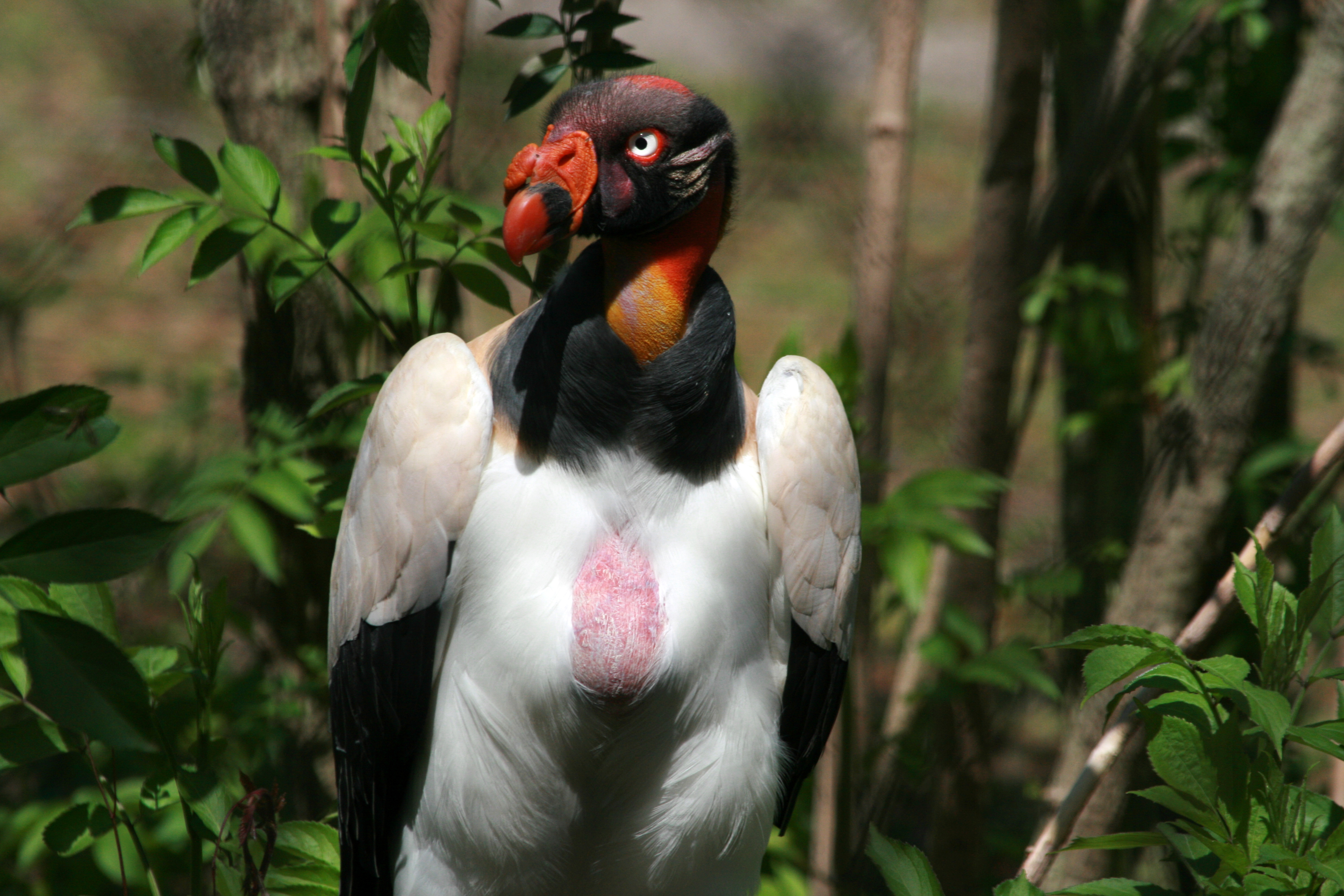 A King Vulture - upper body.